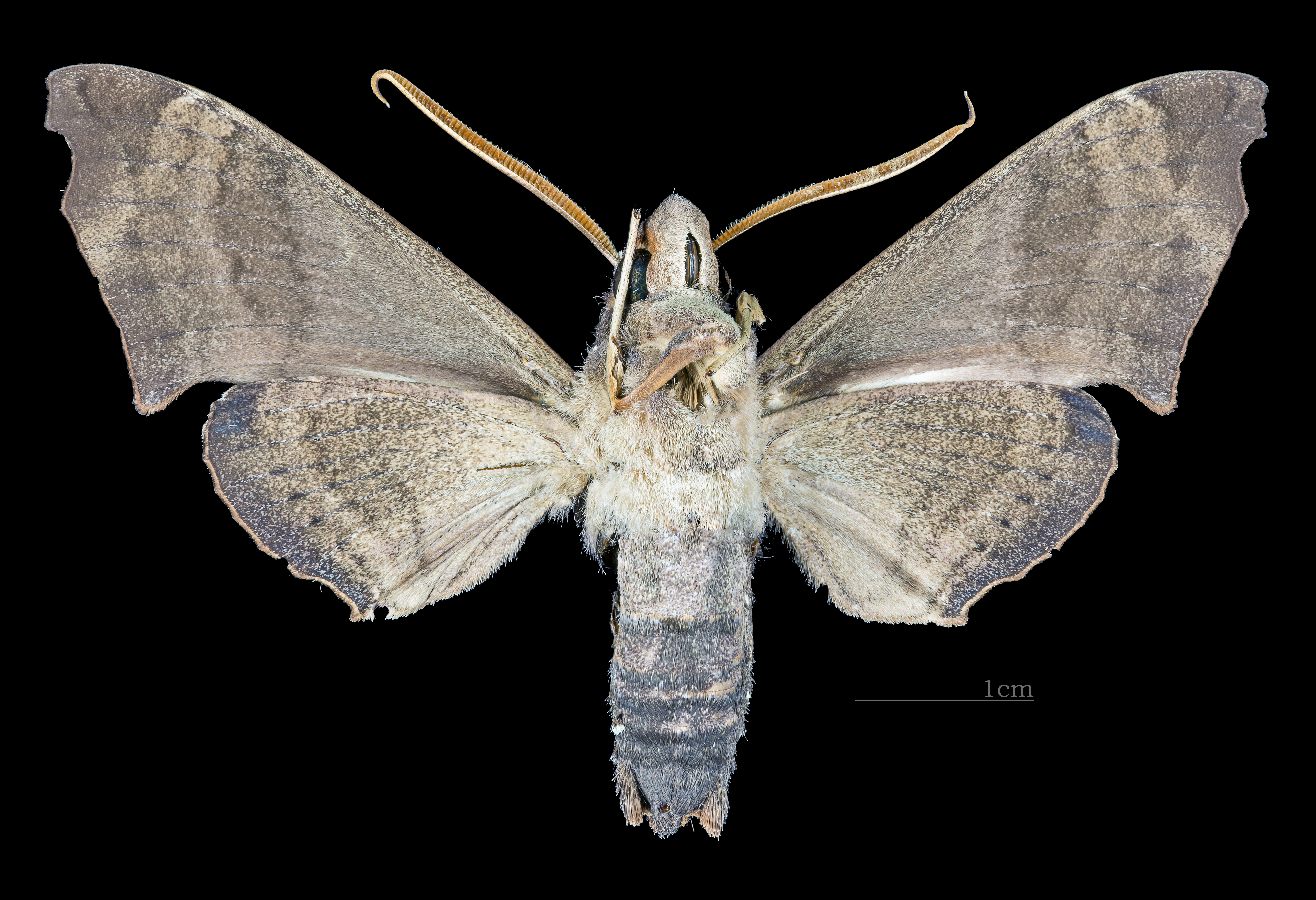 Pachygonidia hopfferi - △ Ventral side